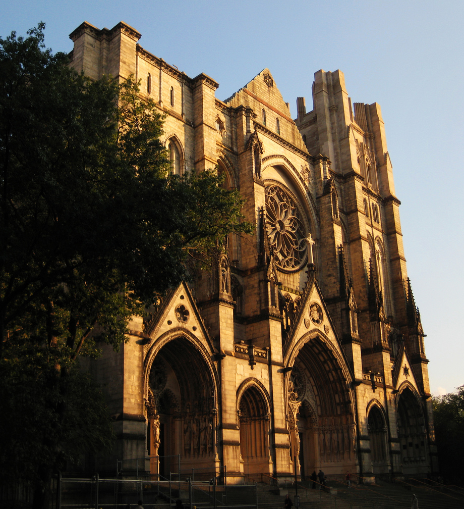 Cathedral of Saint John the Divine, New York City - Shot from the northwest corner facing southeast